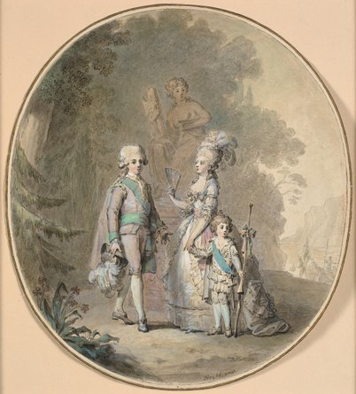 Sophia Magdelena of Denmark, Queen of Sweden (1743–1813) and Gustav III with their son